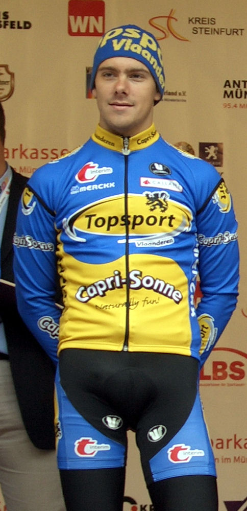 Kenny De Ketele